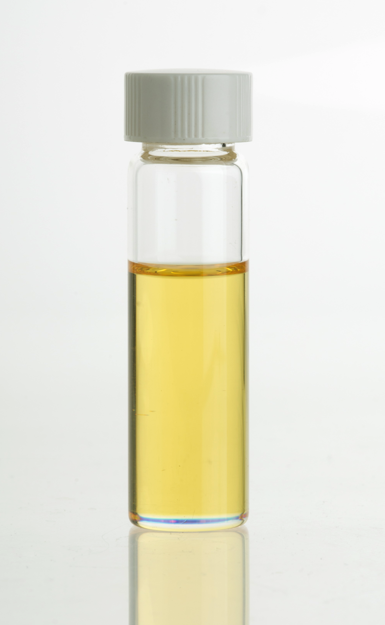 Glass vial containing Celery Seed (Apium graveolens) Essential Oil